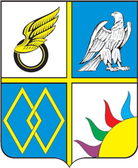 Likino-Dulevo (Moscow oblast), coat of arms